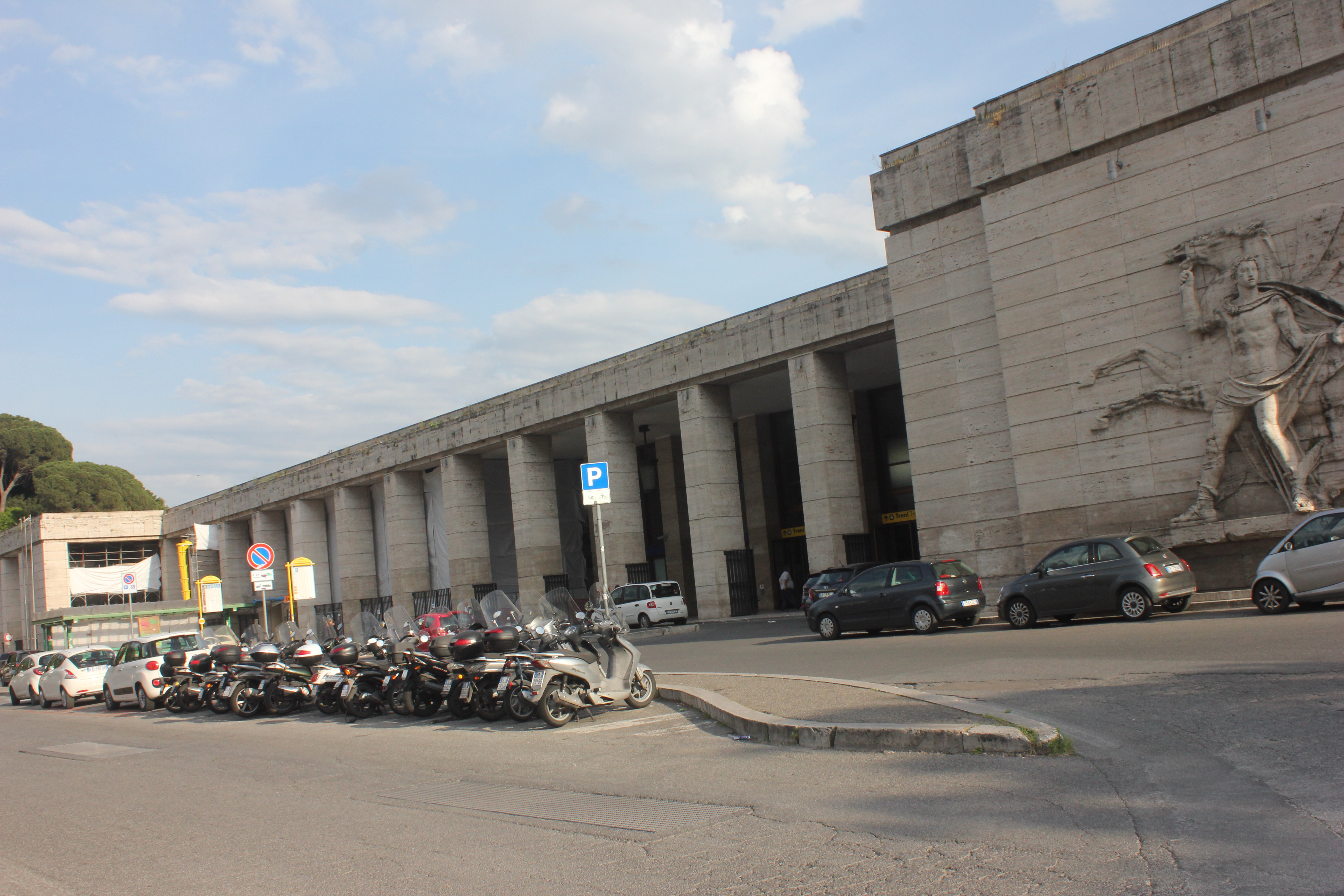 Roma Ostiense railway station